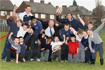 Titans Community Foundation working in school